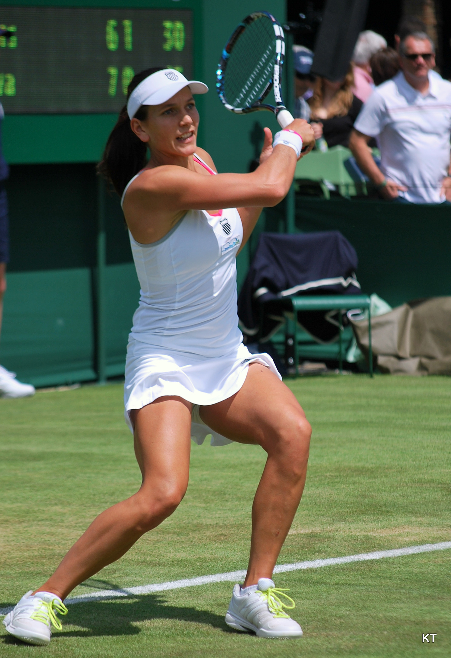 Chanelle Scheepers during her first round match with Yaroslava Shvedova on Day 2 of Wimbledon 2012.